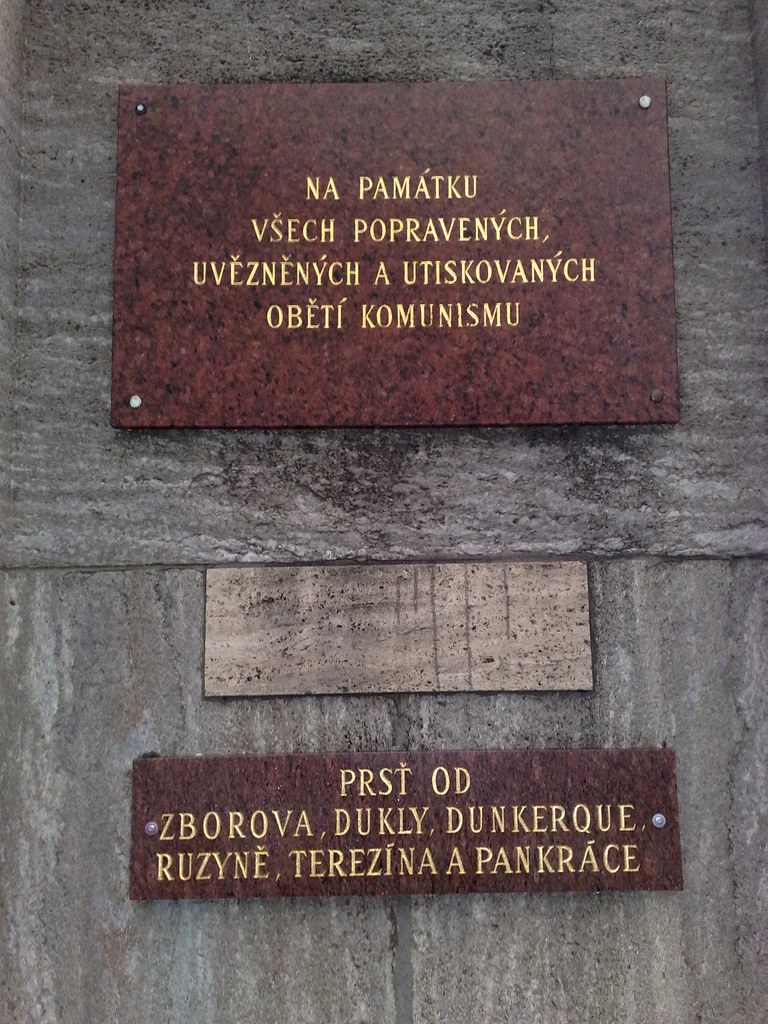 In memory of all executed, imprisoned and downtrodden victims of communism. Earth from Zborov, Dukla, Dunkerque, Ruzyně, Terezín and Pankrác.